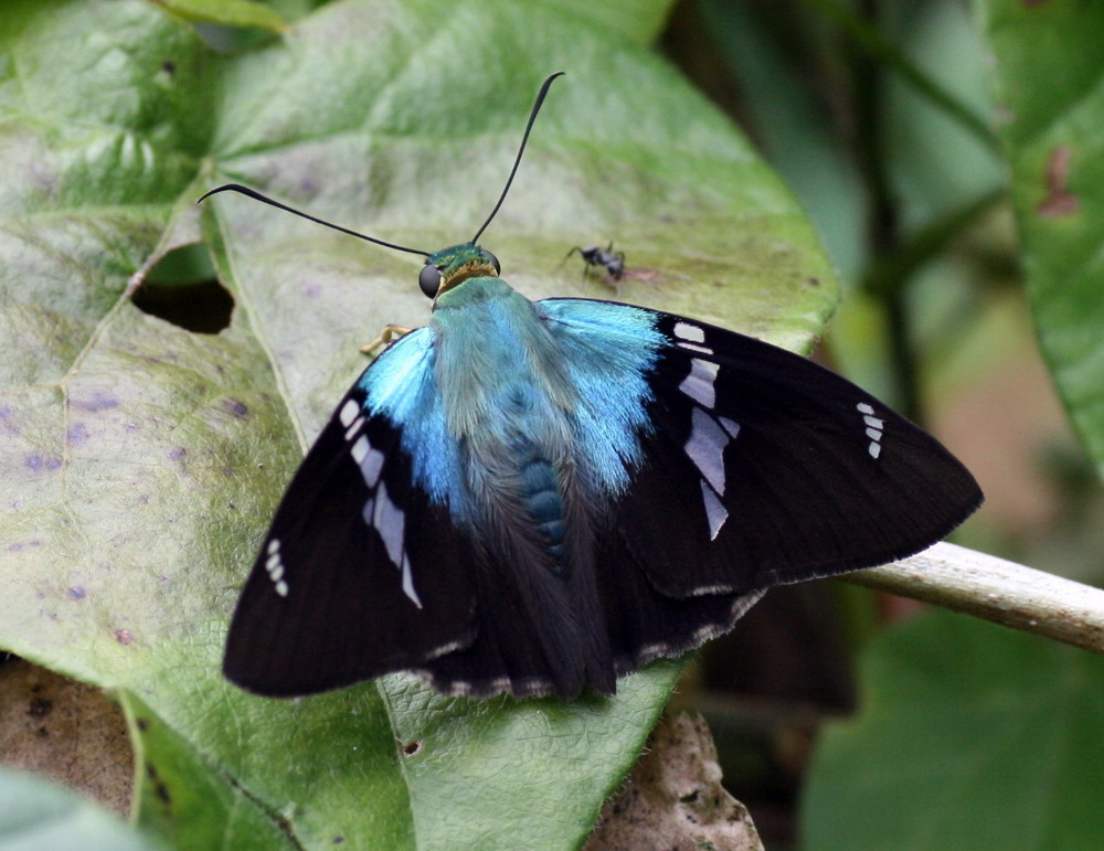 Peru. Iquitos area. Aug. 2008. Therefore nominate ssp. Charles (talk) 12:47, 17 June 2019 (UTC)